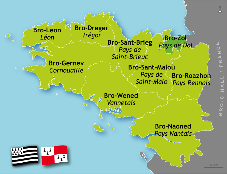 Position's map of Dol Country (Brittany)